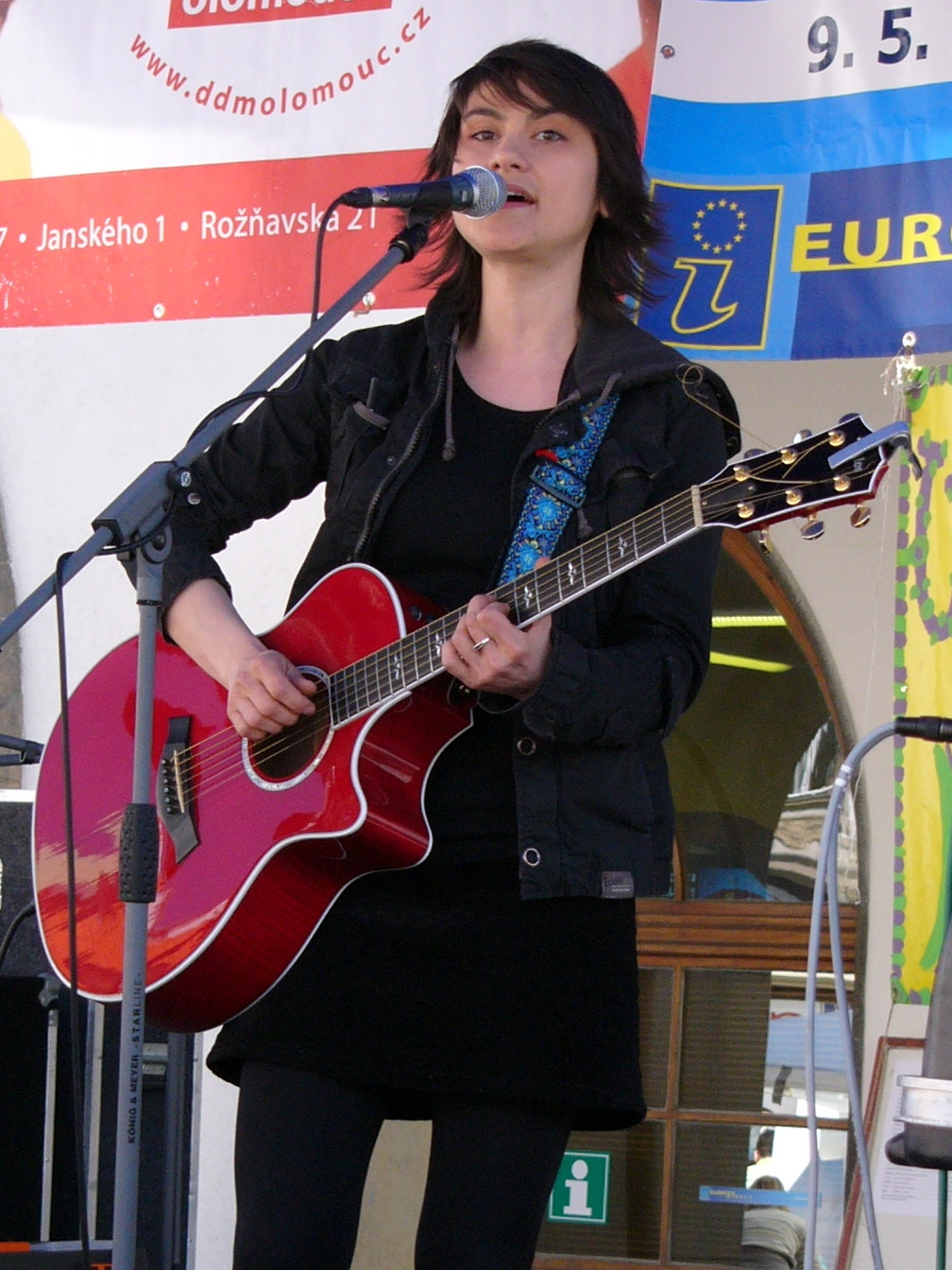 Czech vocalist Lenka Dusilová